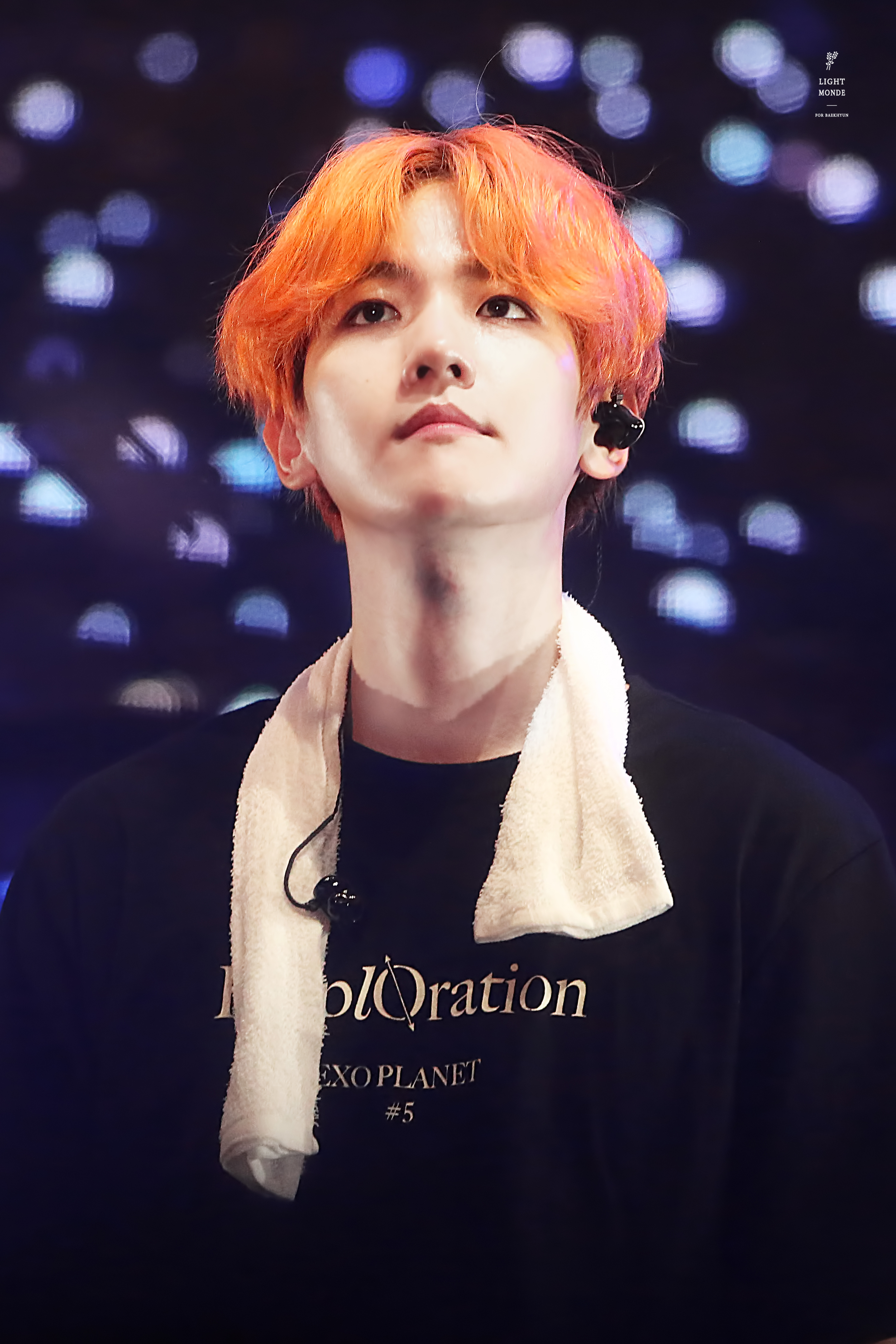 Baekhyun during the Exo Planet #5 – Exploration concert in Seoul on July 21, 2019.